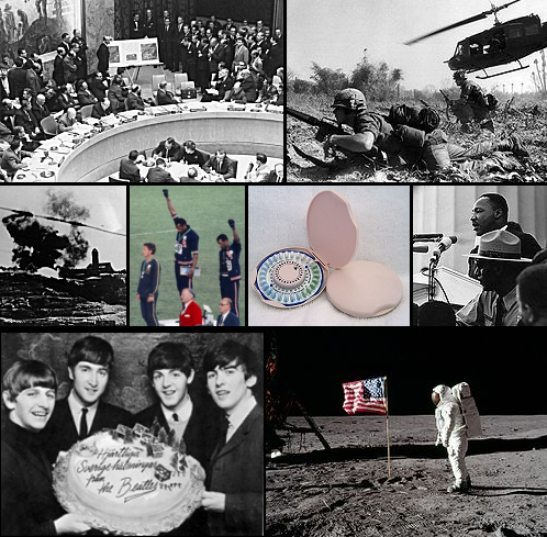 A montage of notable events in the 1960s.